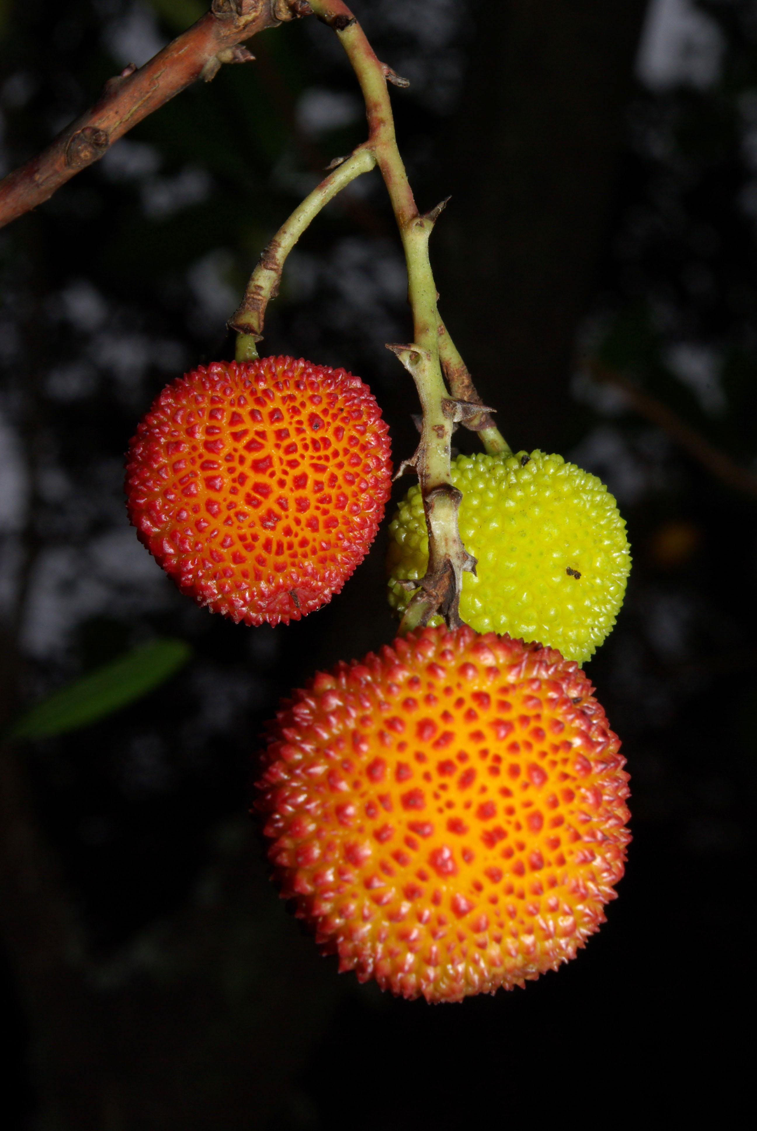 Friuts of Strawberry Tree (Arbutus unedo). National Park of Monfragüe